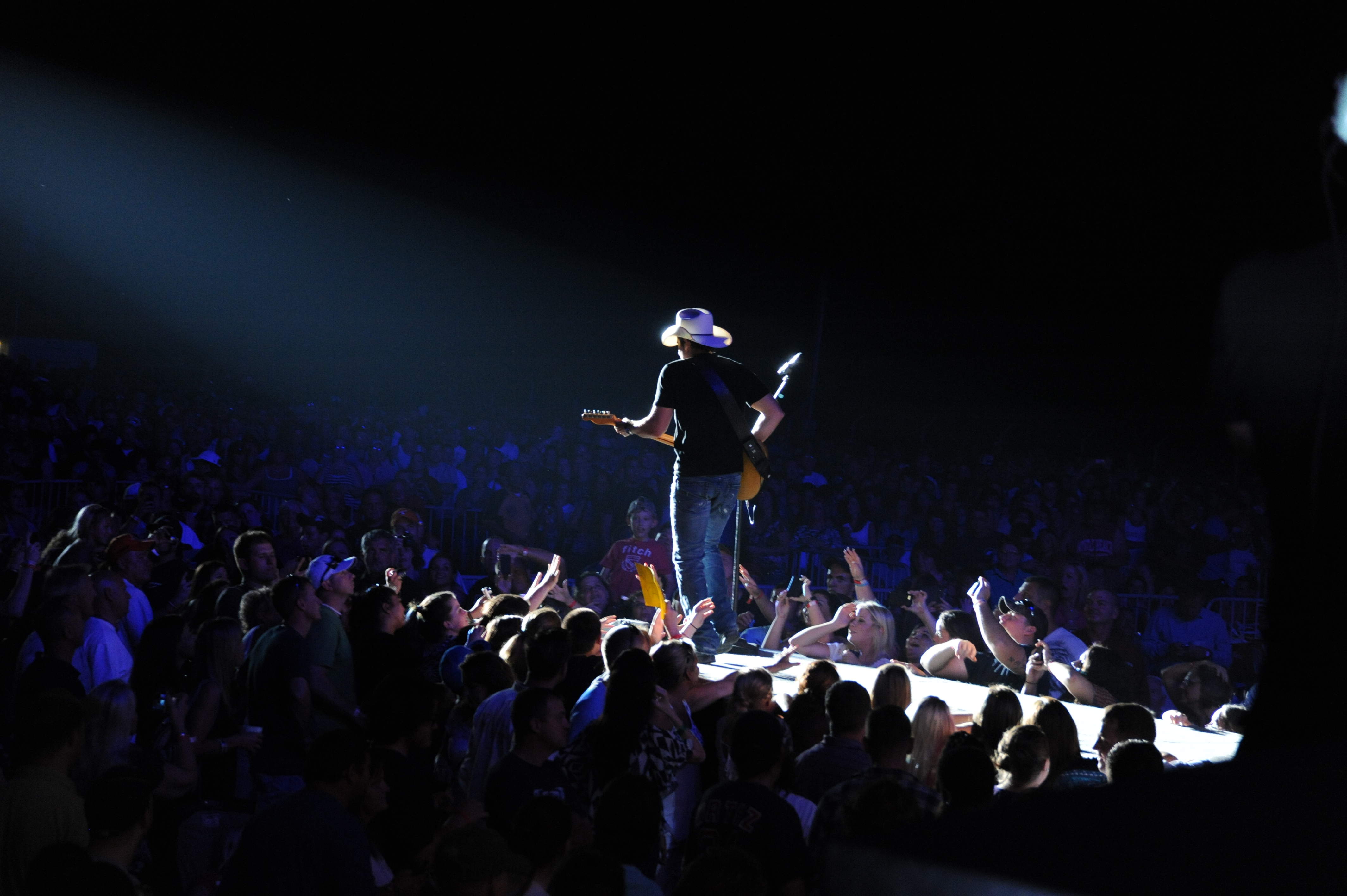 MAYPORT, Fla. (Sept. 8, 2011) Country music star Brad Paisley performs to more than 11,000 members of the Naval Station Mayport community. (U.S. Navy photo by Mass Communication Specialist 1st Class Toiete Jackson/Released)